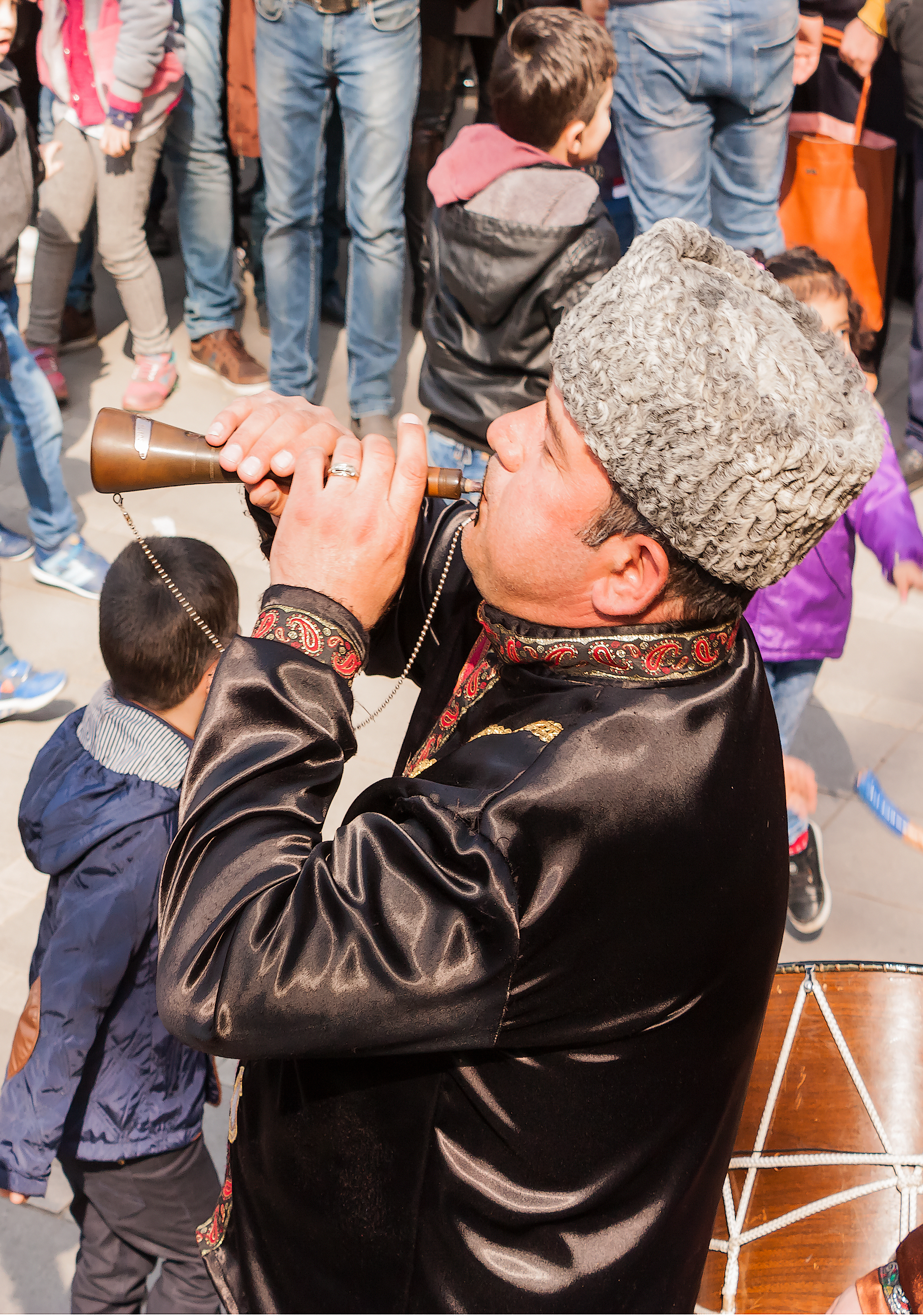 Zurna. Azerbaijani musical instrument